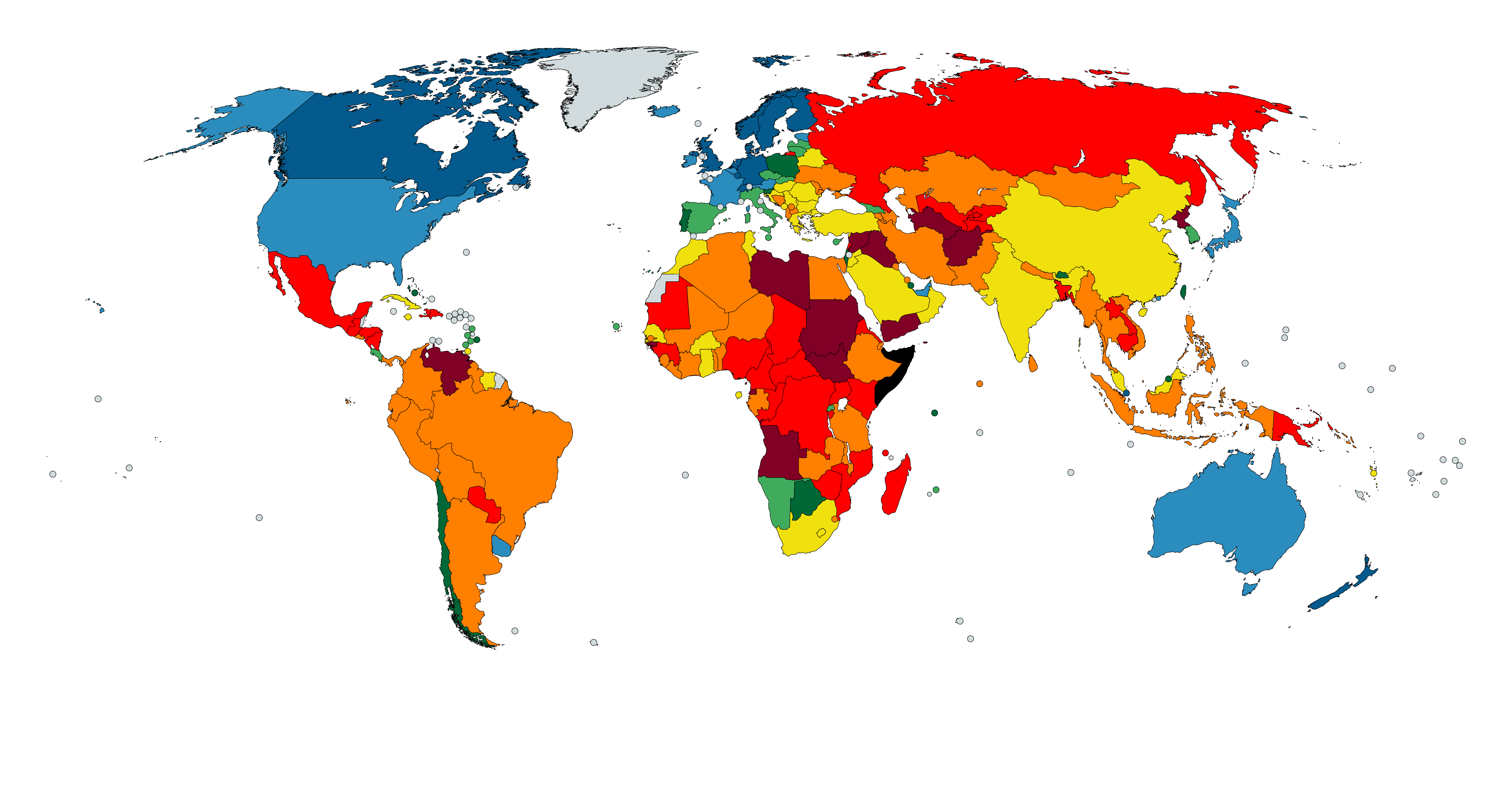 Corruption Perceptions Index of 2017 according to Transparency International Score: 80-89 70-79 60-69 50-59 40-49 30-39 20-29 10-19 0-9